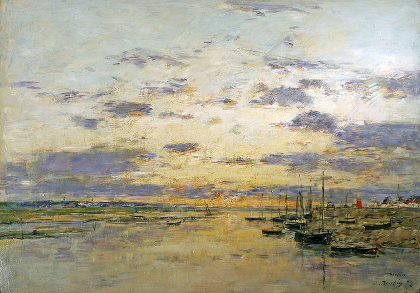 Sunset at Etaples